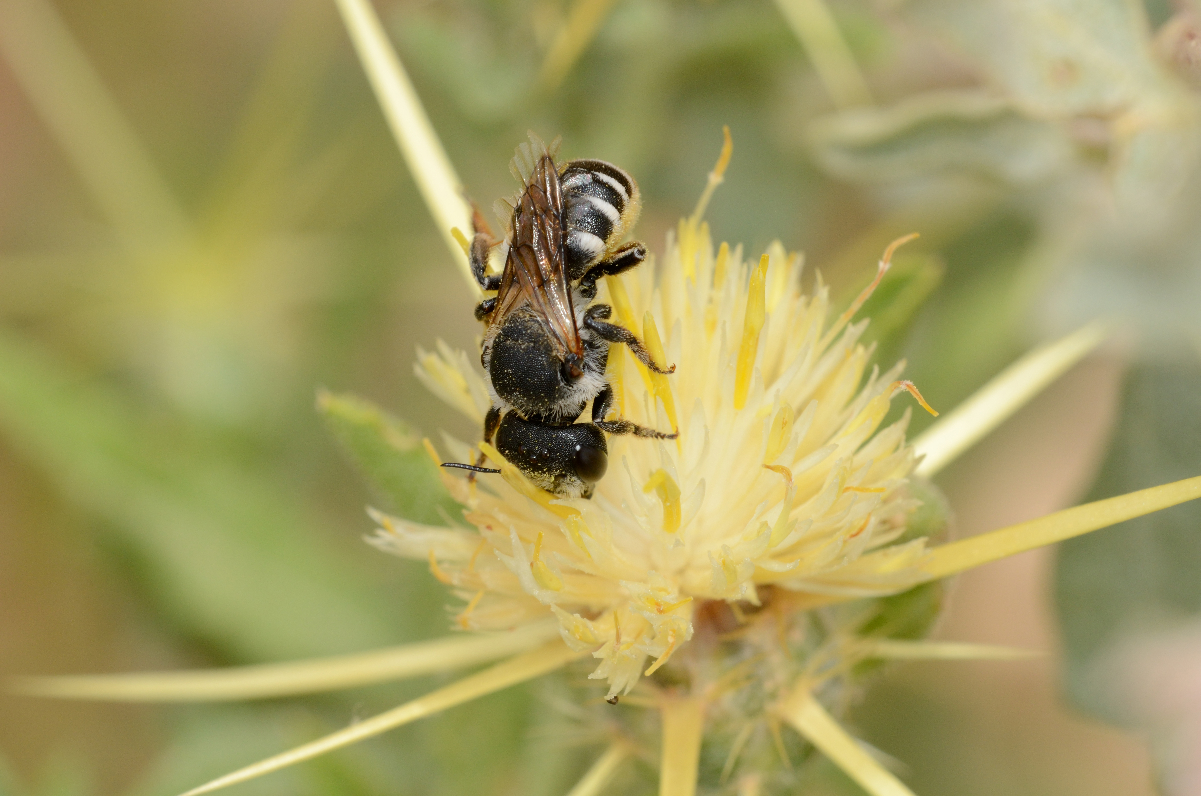 Wainia (Caposmia) eremoplana (Mavromoustakis 1949), female foraging on Centaurea sp., the Negev, Israel, April 24, 2014.